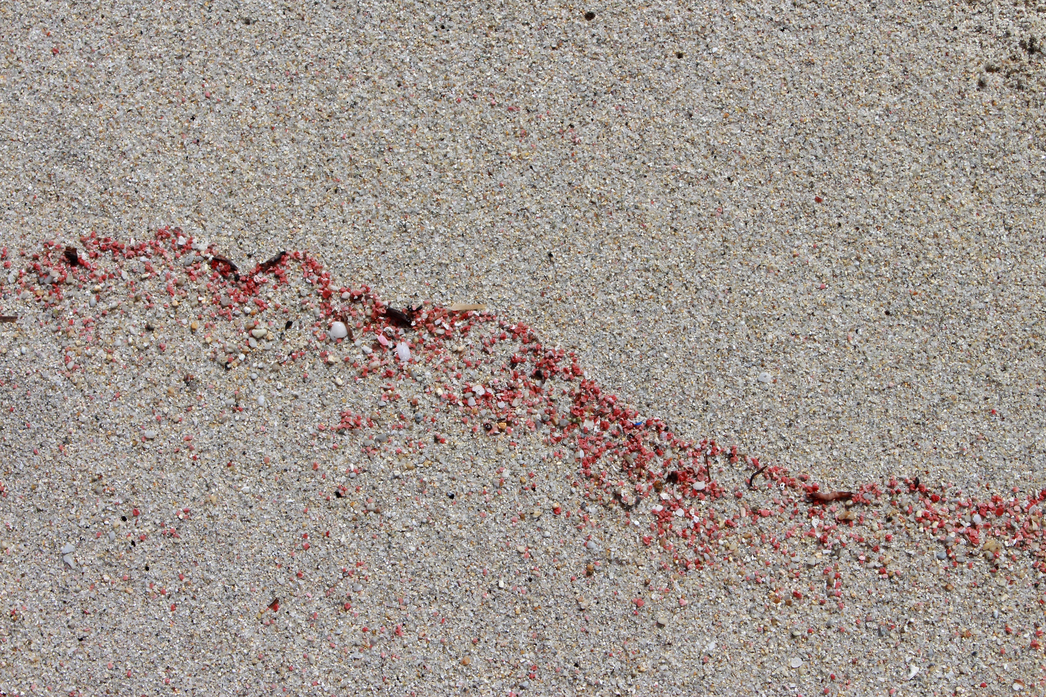 Fractal line: This is the high water line on the Bodri beach near L'Île Rousse, Corsica.